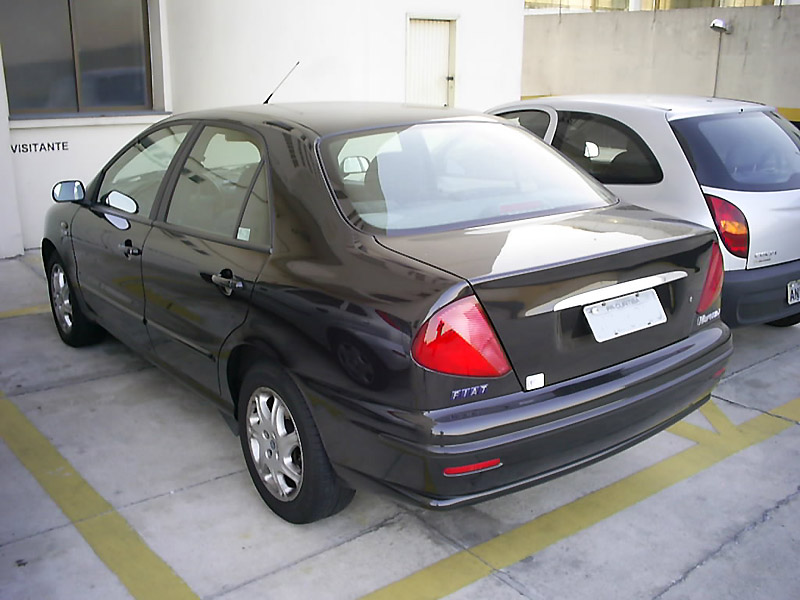 Fiat Marea 1.8 16V 2002 facelift (Brazilian Spec)